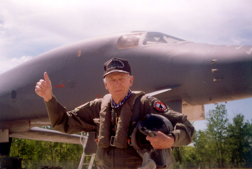 Colonel Robert L. Scott Jr. in front of a B-1B Lancer bomber in 1997.